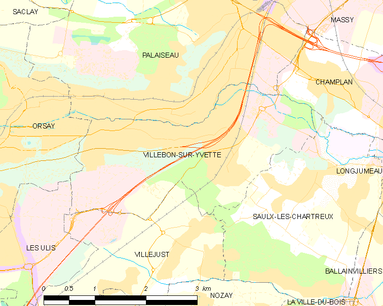 Map of French municipality Villebon-sur-Yvette